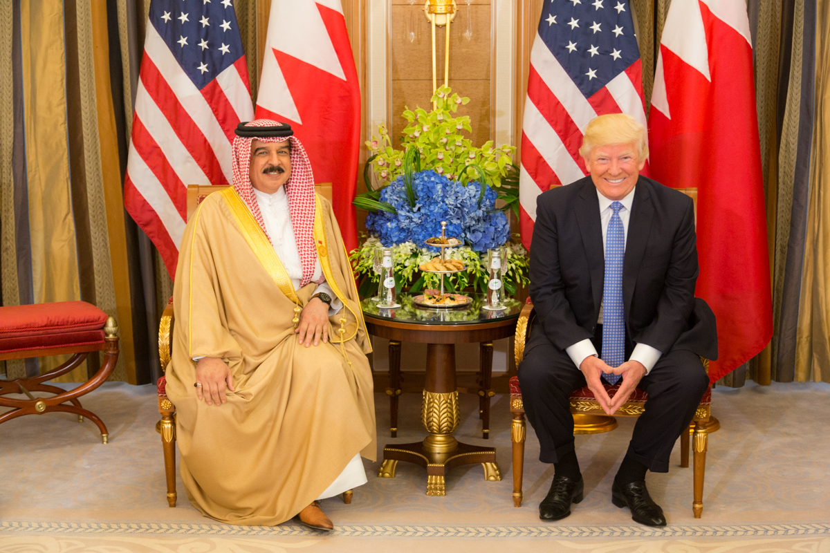 President Donald Trump meets with King Hamed bin Issa of Bahrain during their bilateral meeting, Sunday, May 21, 2017, at the Ritz-Carlton Hotel in Riyadh, Saudi Arabia. (Official White House Photo by Shealah Craighead)